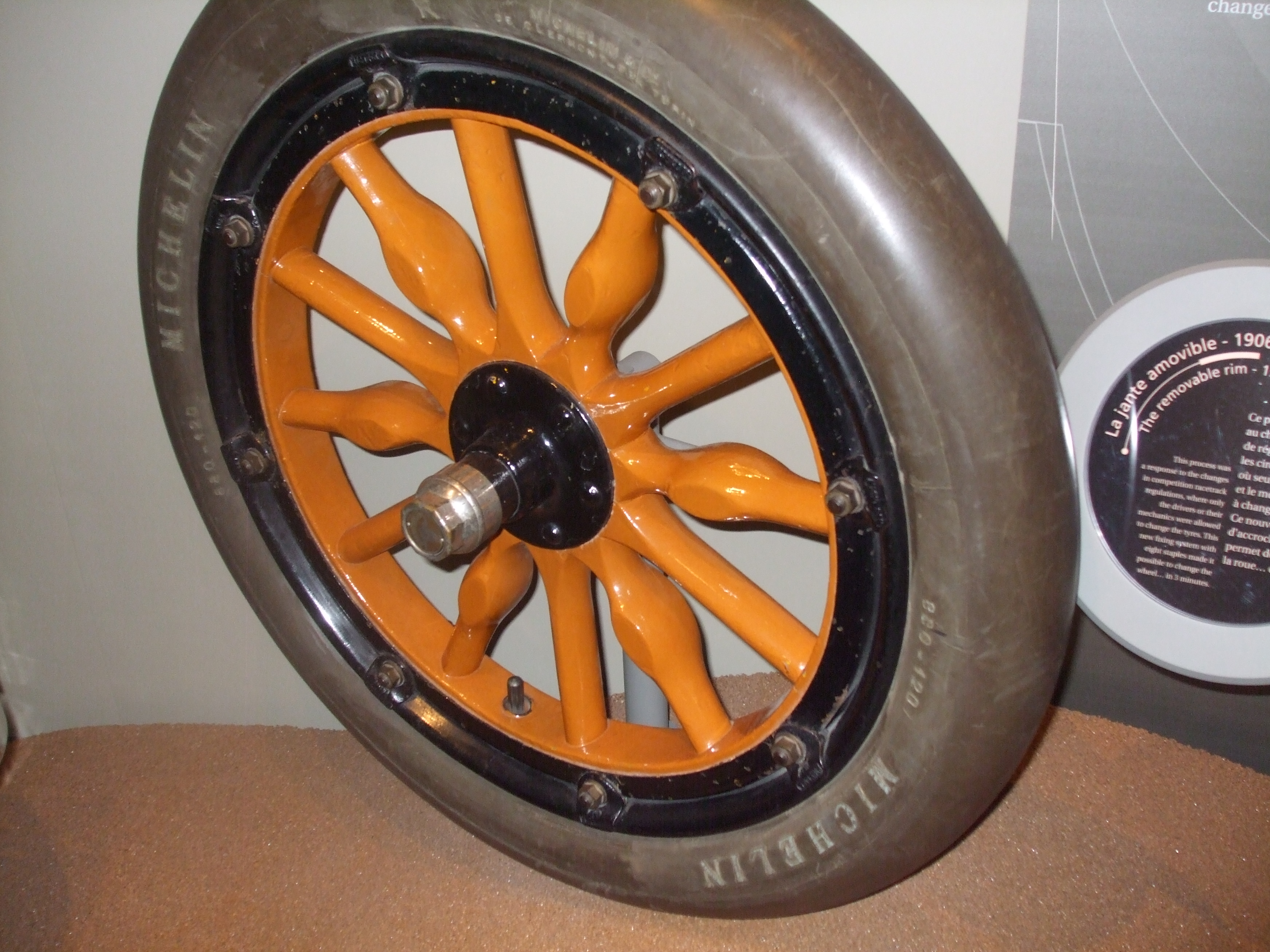 The Michelin Adventure in Clermont-Ferrand describes the rôle of Michelin in the development of the tyre. Michelin 1906 Removable Rim Tyre . The eight staples allowed a mechanic to change a tyre on a race track in 3 minutes.